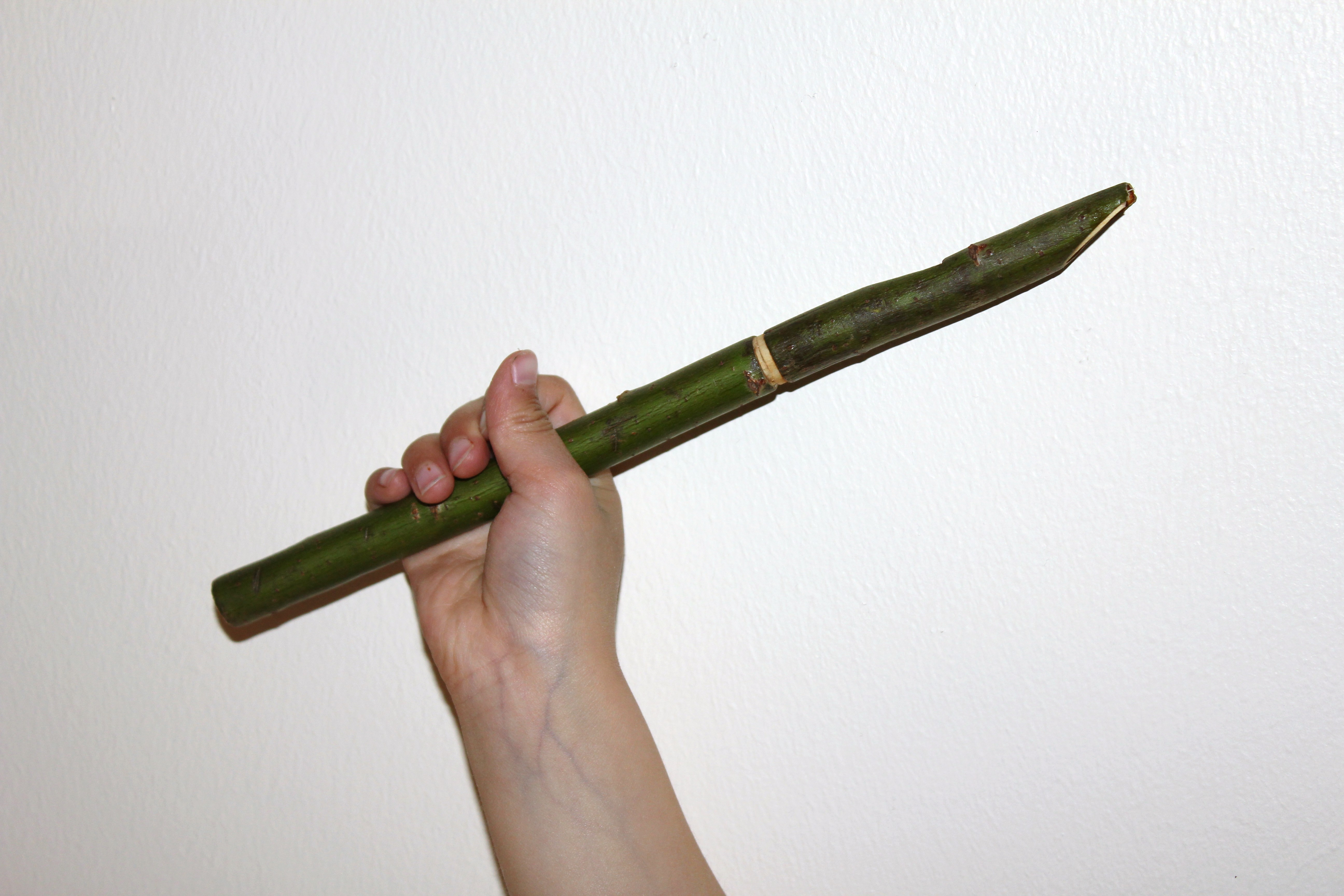 willow flute